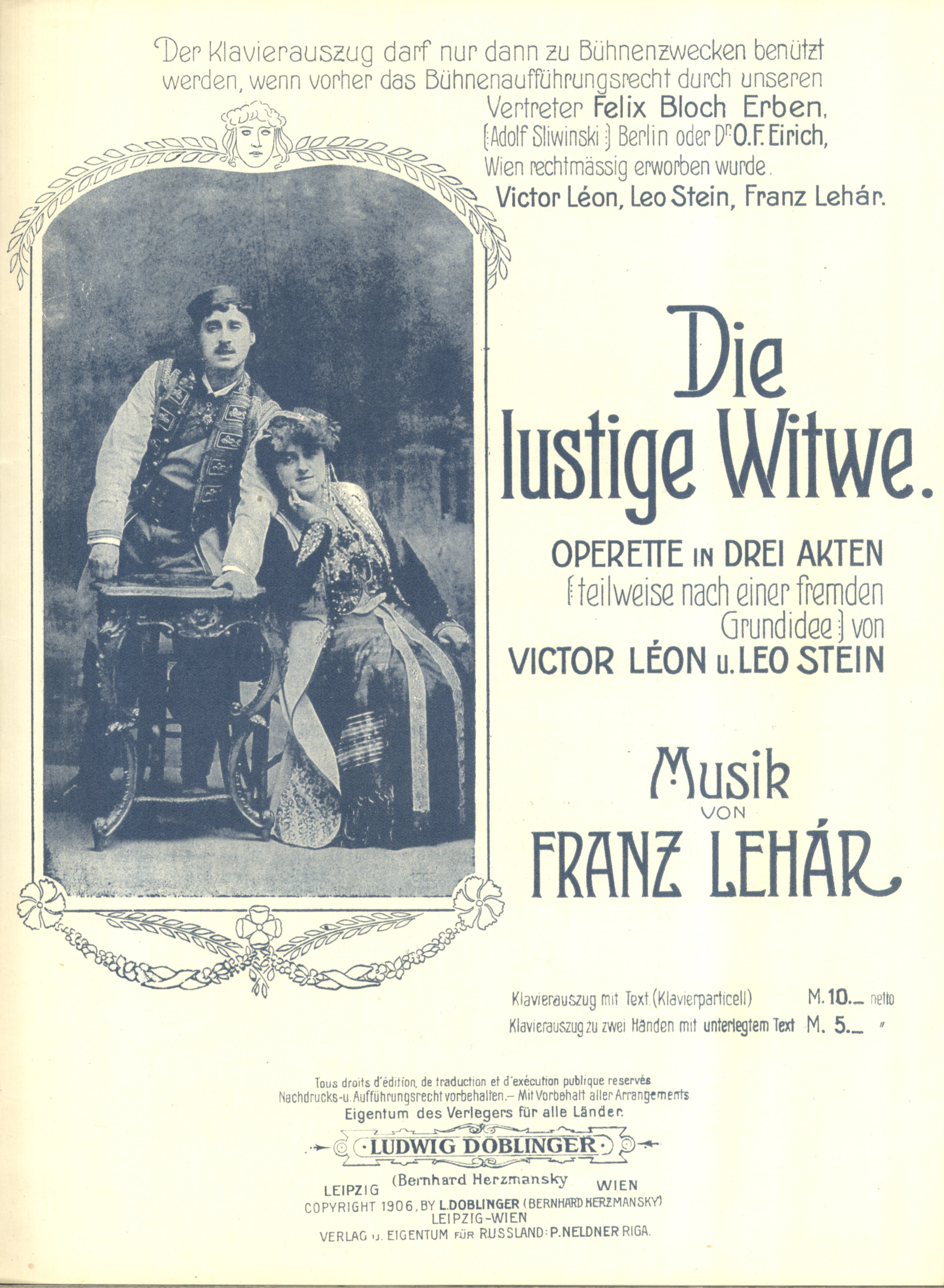 Franz Lehar. The Merry Widow, piano score, front page, Vienna 1906